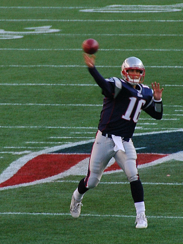 Matt Cassell throws a pass. Patriots v. Bills, 11/9/08